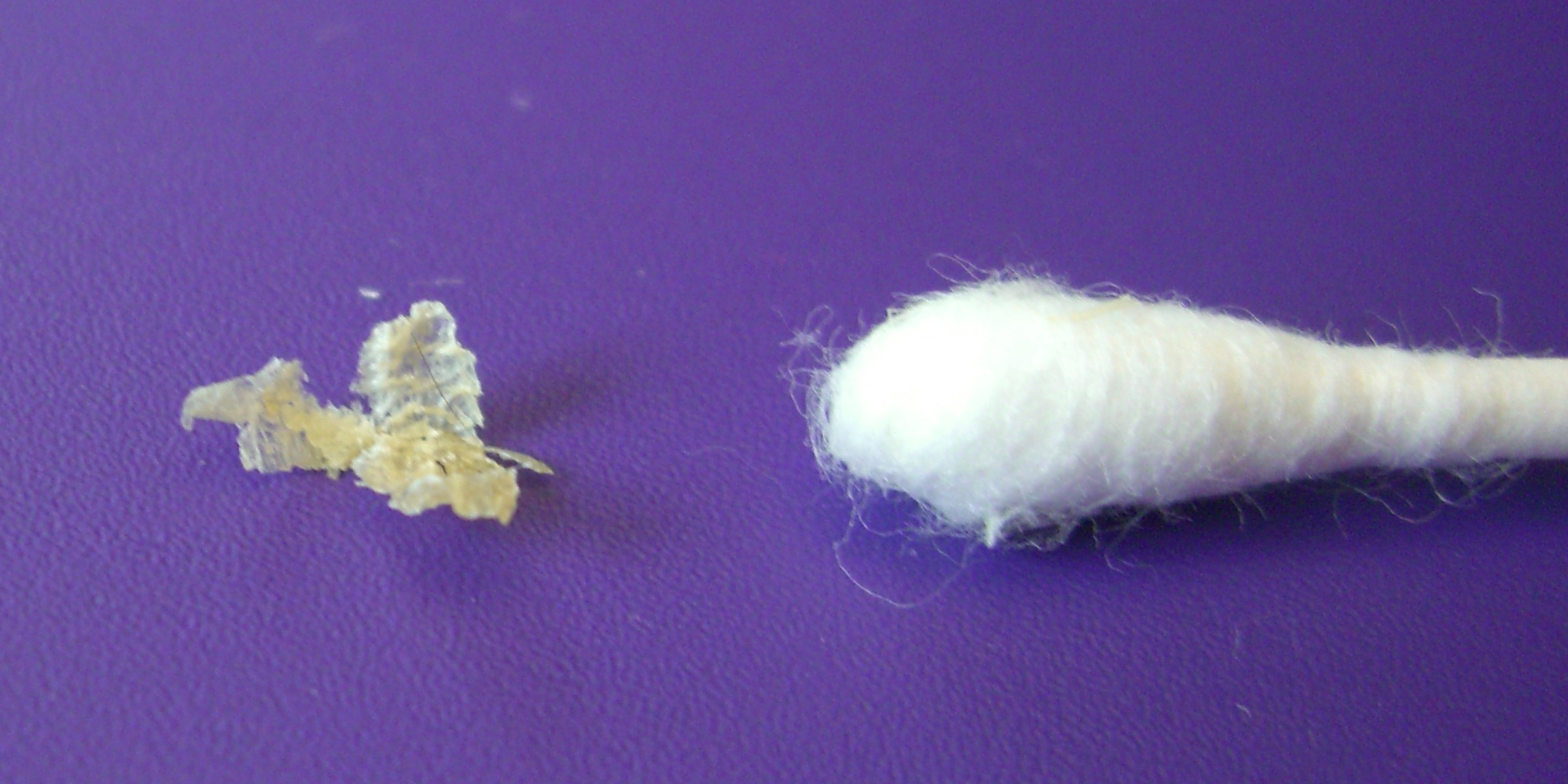 Dry earwax, typical of Asian and Native Americans. Note that cotton swab is for scale only (compare with Image:earwax on swab.jpg): specimen was actually extracted using a curette-style ear pick.